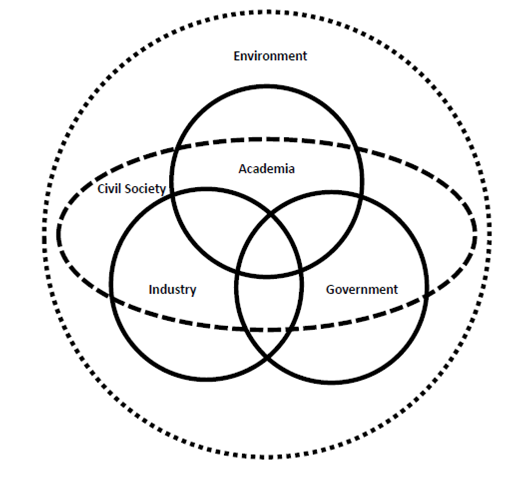 The figure illustrates the five helices of the quintuple helix model of innovation economics.